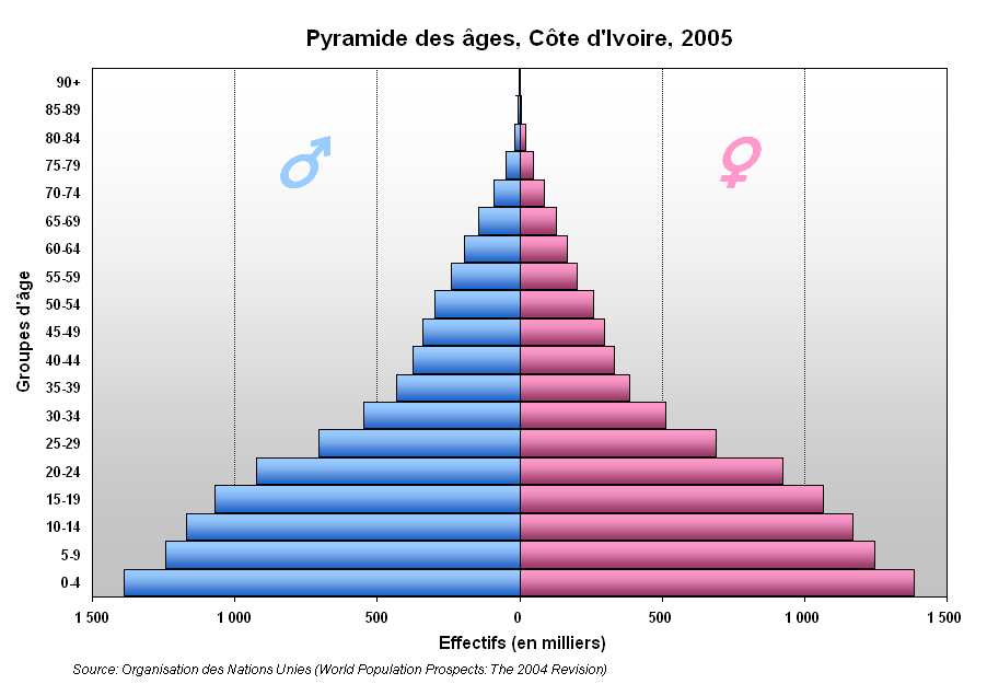 Côte d'Ivoire Population pyramid, 2005